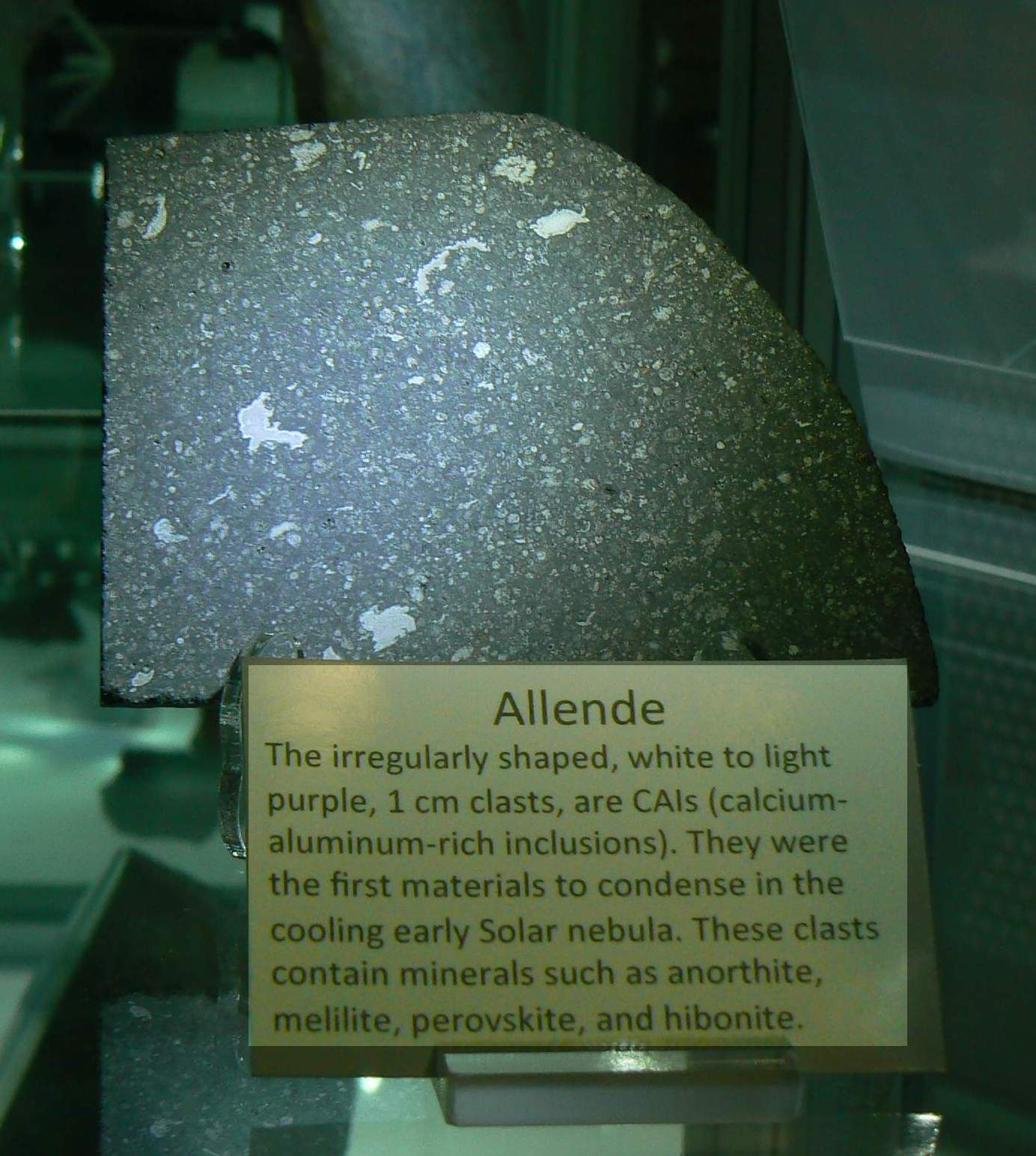 A large slice of an Allende meteorite on public display at the Center for Meteorite Studies, 2nd floor of the Interdisciplinary Science and Technology Building (ISTB4) on the Tempe campus of Arizona State University.